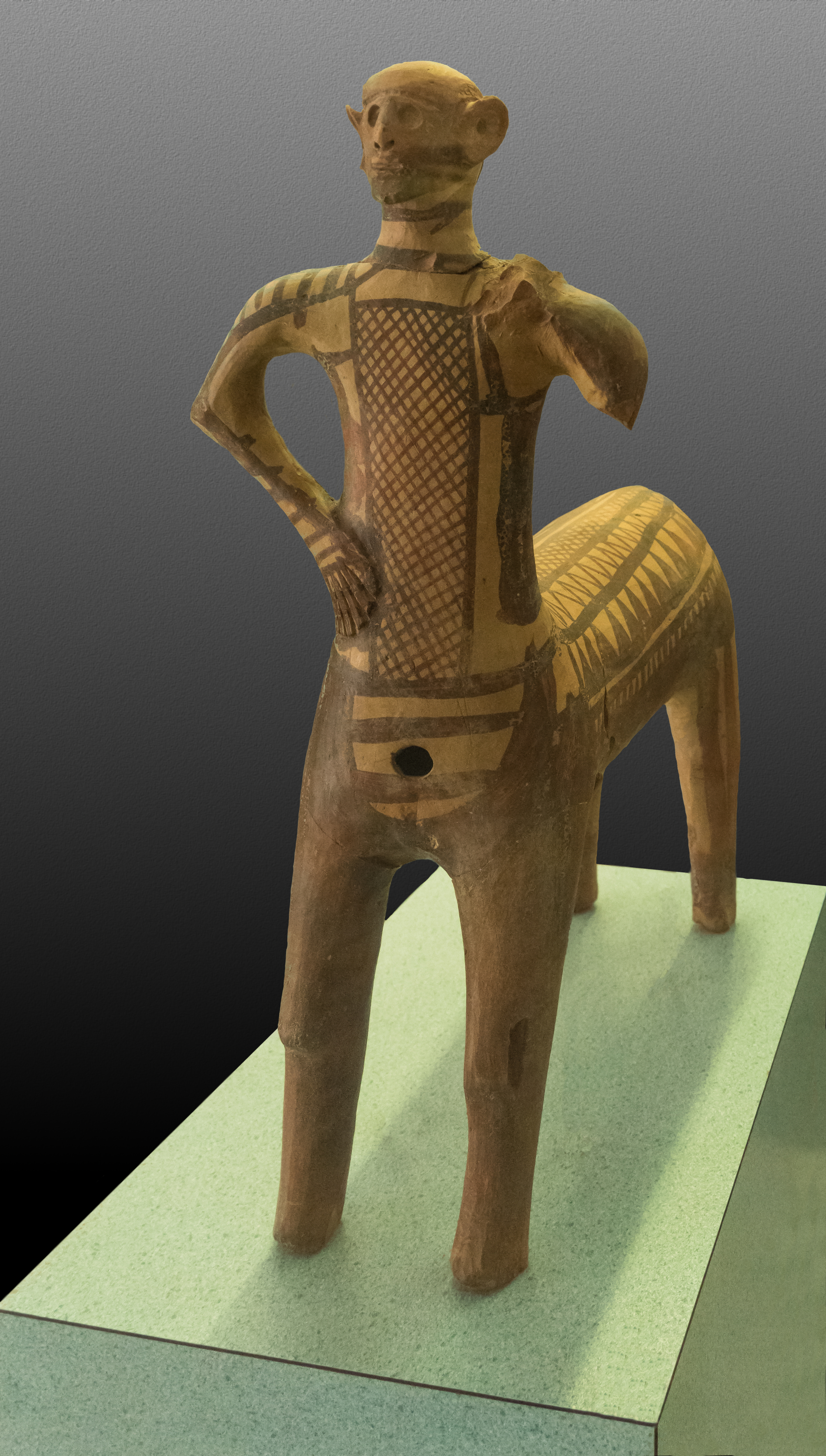 Centaur of Lefkandi, 1050 - 900 BCE, Clay. Identified as Chiron, found in two pieces in two different tombs in the site of Toumba. It is the first "3D" sculpture of a centaur ever. Archaeological Museum of Eretria Native nameΑρχαιολογικό Μουσείο ΕρέτριαςLocationEretria, GreeceCoordinates38° 23′ 45.96″ N, 23° 47′ 22.42″ E Established1960 Web page control : Q42114772 VIAF: 173024206 ULAN: 500300138 institution QS:P195,Q42114772 inv.n°18